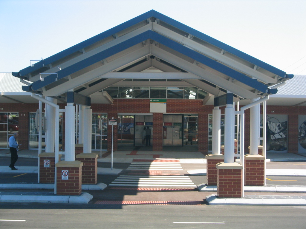 Transperth Thornlie Train Station